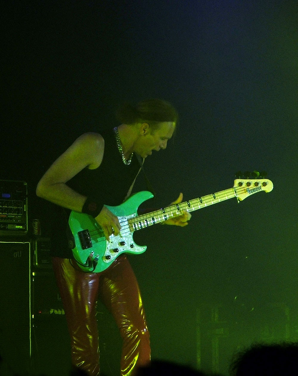 With Steve vai in Milan (Alcatraz), 25th September 2005.